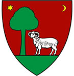 Coat of arms of Kóspallag, Hungary